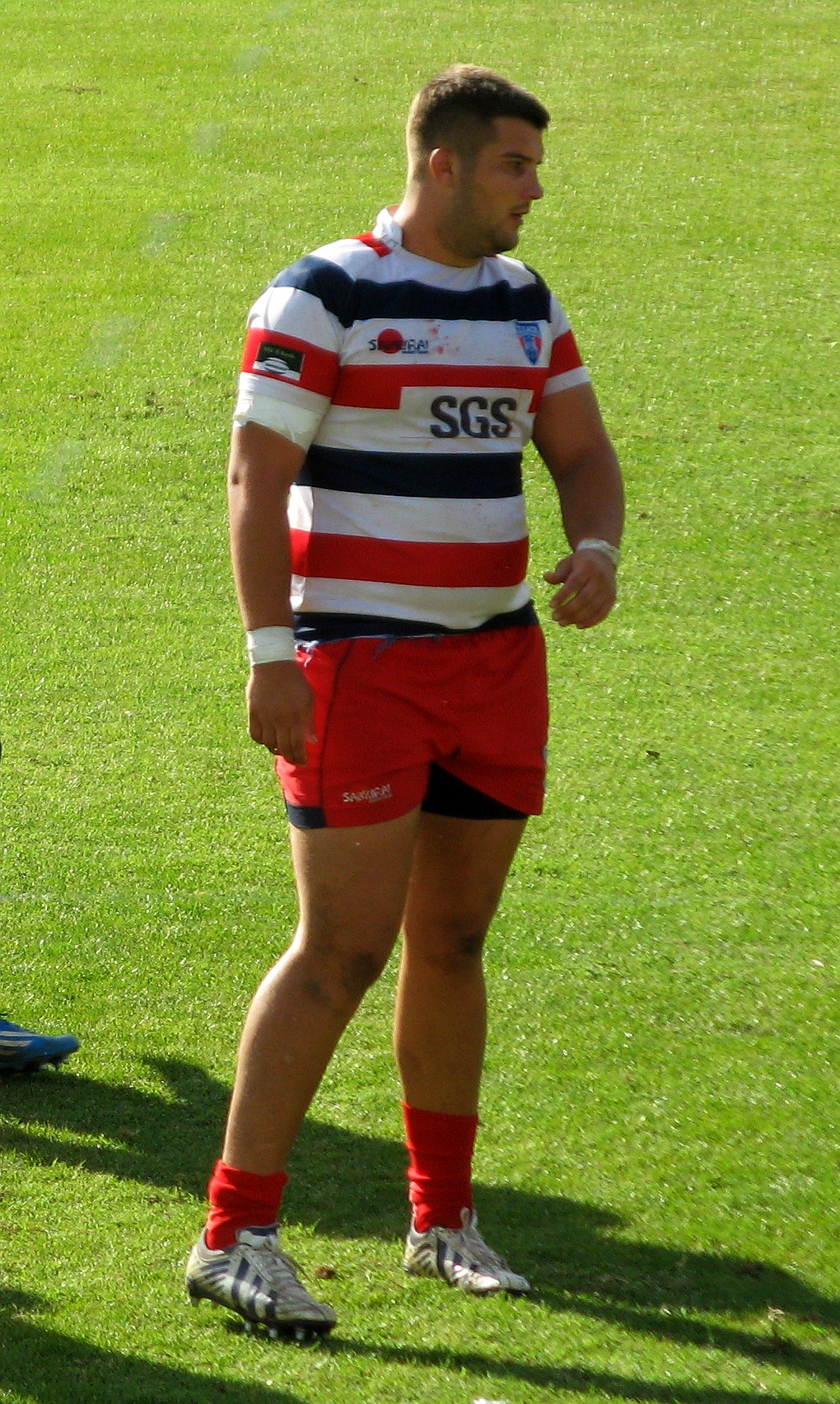 Romanian rugby union football player, Bogdan Doroftei, player of CSA Steaua București rugby club seen in a match against CSM Baia Mare in Round 5 of Romanian Rugby SuperLiga in September 2017